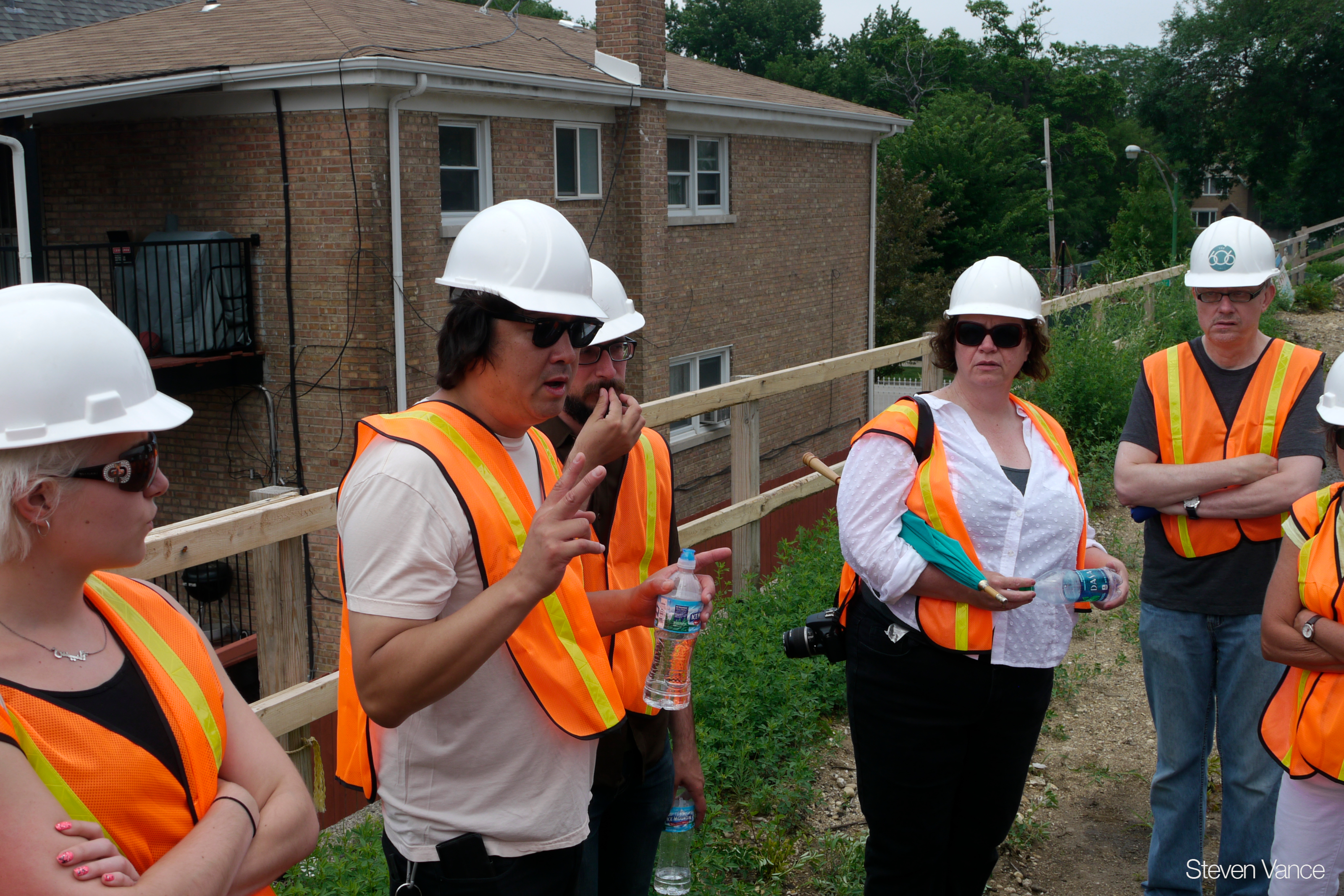 Ed Marszewski talking about byzantine art procurement in Chicago